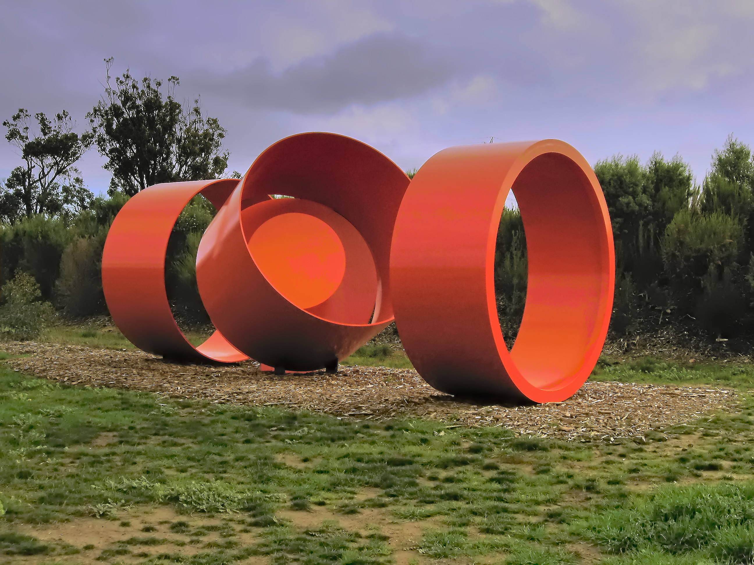 Sculpture 'Red Rings' by Inge King.Located at the junction of the eastLink Trail and the Dandenong Creek Trail, “Red Rings” challenges passers-by to walk through and arouse their curiosity to explore the forms. The three painted steel rings are each 2.5 metres in diameter